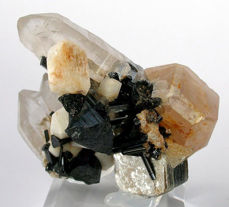 Apatite-(CaF), Quartz, Schorl, Muscovite, Albite Locality: Haramosh Mts., Skardu District, Baltistan, Northern Areas, Pakistan (Locality at ) Size: 5.7 x 5.0 x 3.9 cm. An aesthetic combination specimen from recent Pakistan finds. This complete-all-around, striking piece is highlighted by the 2.6 cm, blocky, textbook, pastel-pink apatite crystal. The crystal is lustrous and translucent. The prominent, pointing upward, glassy, transparent quartz crystals, with some strangely etched faces, reach 3.9 cm. Lustrous, jet-black schorls, a very interesting, thick, pearlescent to black muscovite "book" and starkly contrasting, sharp albite crystals round out this most excellent combination piece.